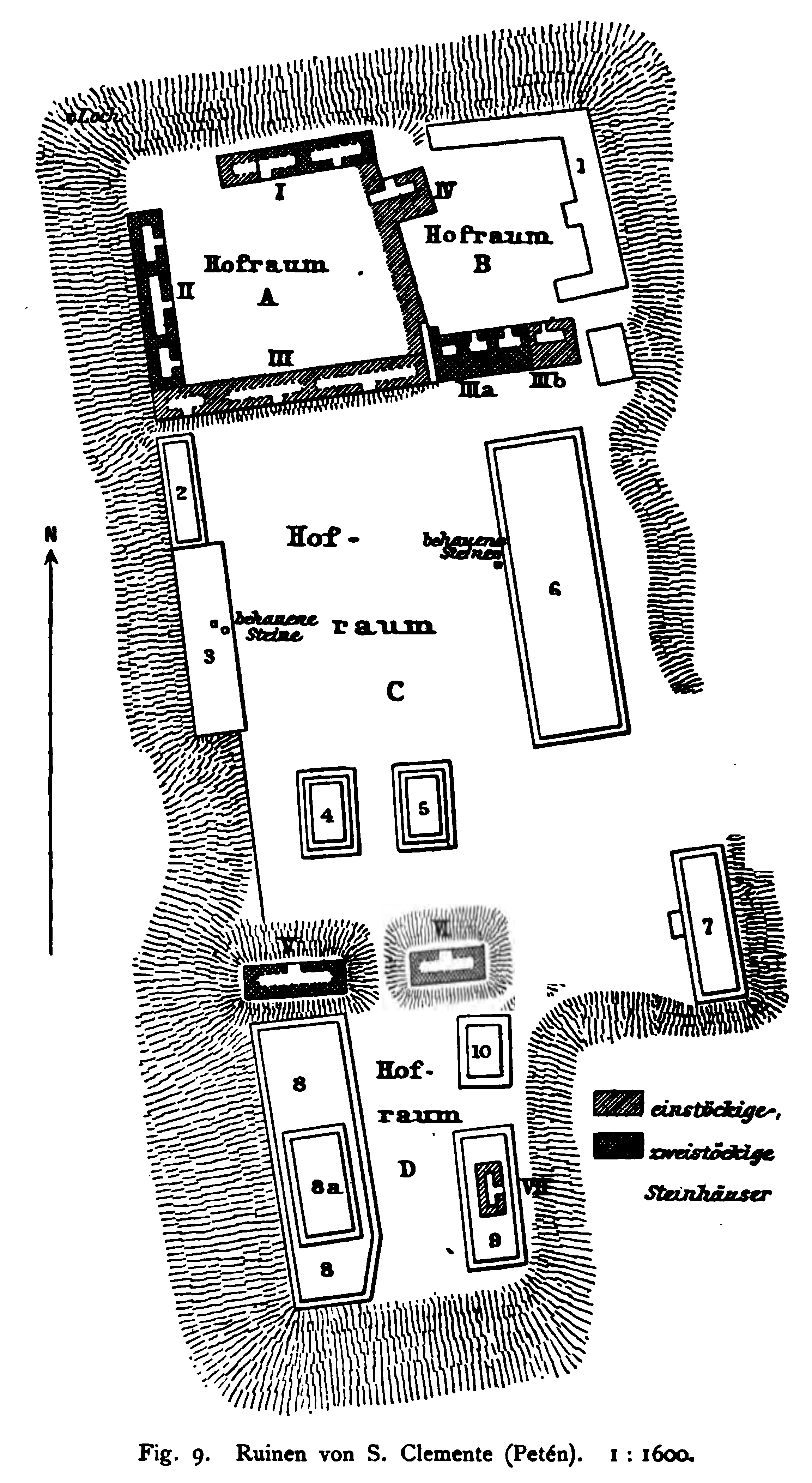 Plan of the Maya ruins of San Clemente, Petén, Guatemala, by Karl Sapper, from page 362 of his Das Nordliche Mittel-Amerika nebst Einem Ausflug nach dem Hochland von Anahuac, published 1897.